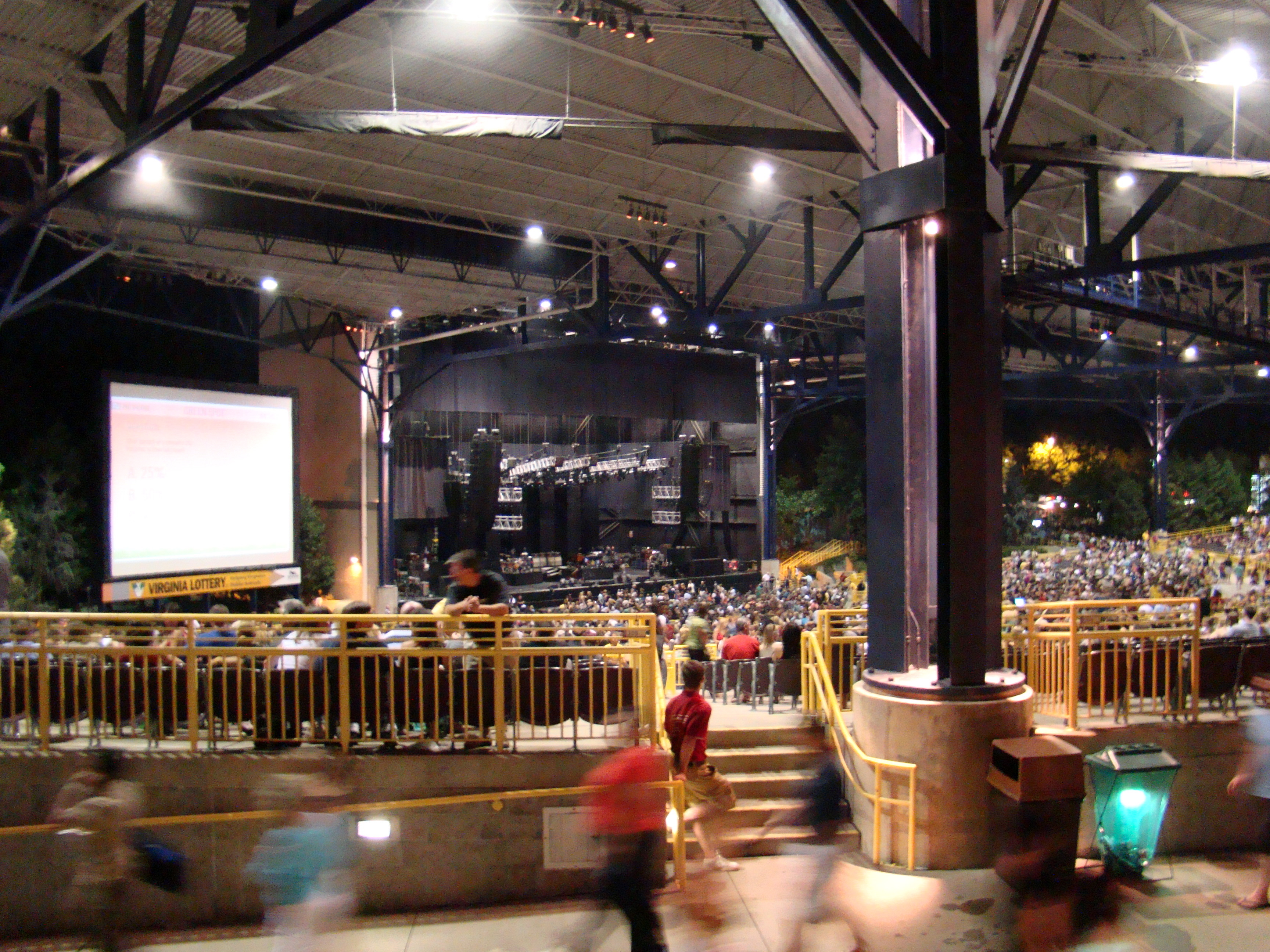 Inside Nissan Pavilion during a night concert